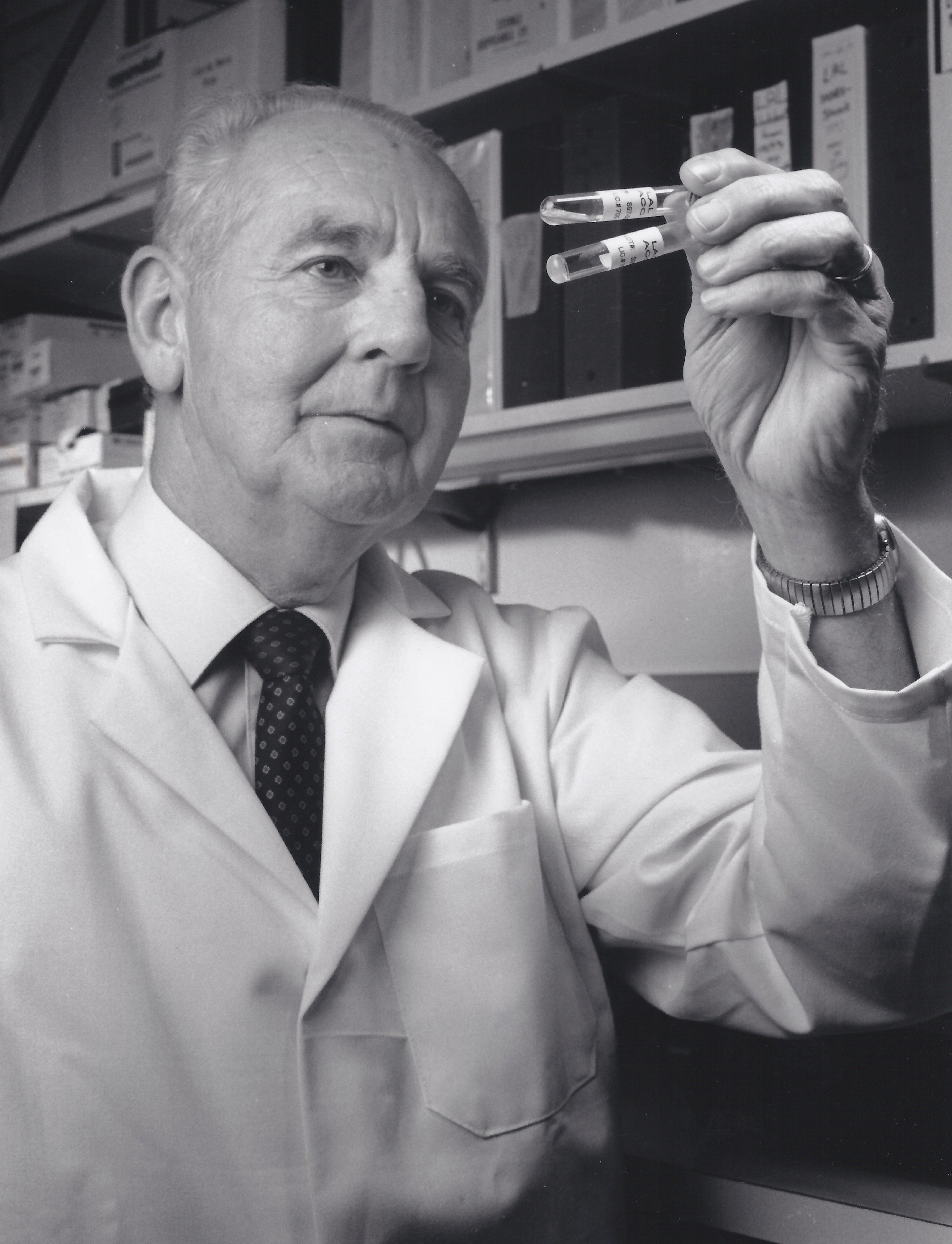 FDA scientist Don Hochstein holds in the lower tube, a sample of a deadly endotoxin (a toxic by-product of gram negative bacteria). Its detection was made possible by a test derived from work with the horseshoe crab. For more information on FDA History, please visit